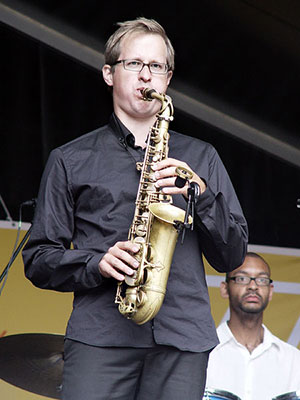 Fredrik Kronkvist and Jason Marsalis in Aarhus, Demark